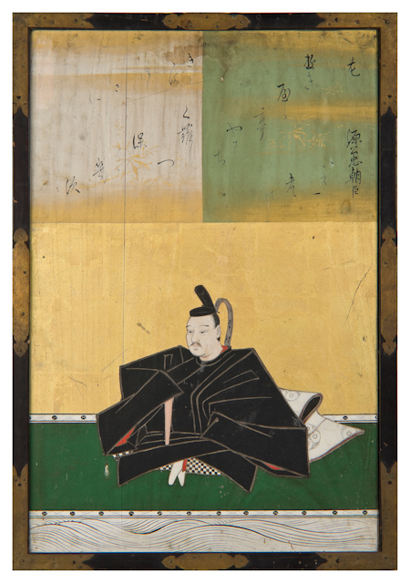 Sanjūrokkasen-gaku (Thirty-six Poetry Immortals framed picture) #15: Minamoto no Kintada Asomi